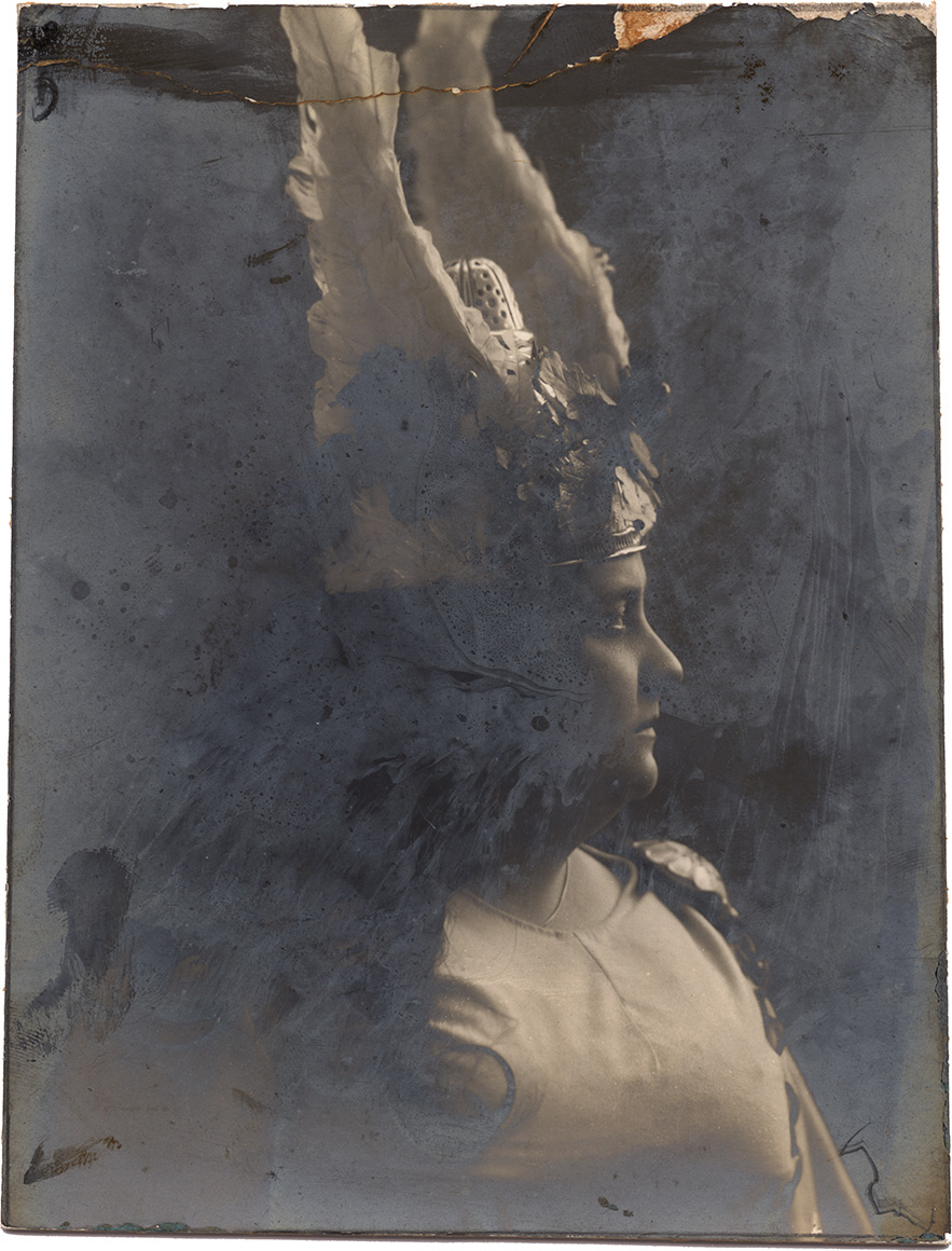 Portrait of Elena Bianchini Cappelli, soprano (1873-1919). Photo by unknown, before 1919.